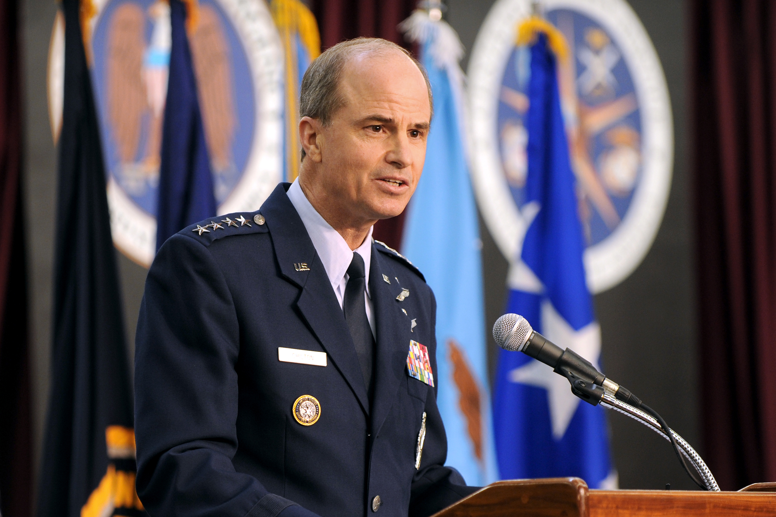 U.S Air Force Gen. Kevin P. Chilton, commander, U.S. Strategic Command, addresses the audience during the activation ceremony of U.S. Cyber Command on Fort Meade, Md., May 21, 2010.